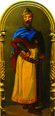 Garcia Sanchez III of Navarre